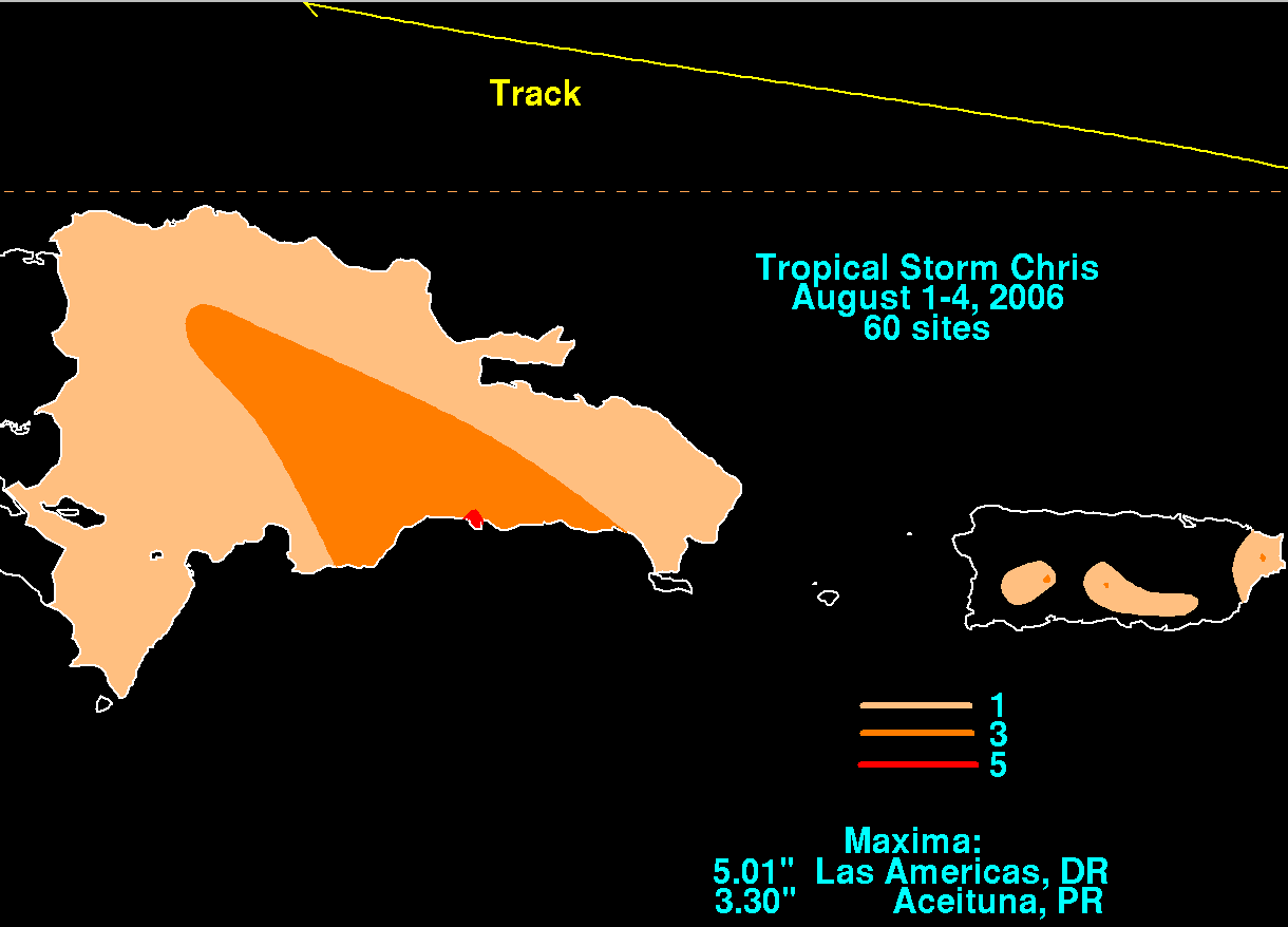 Storm total rainfall map of Tropical Storm Chris during August 2006.